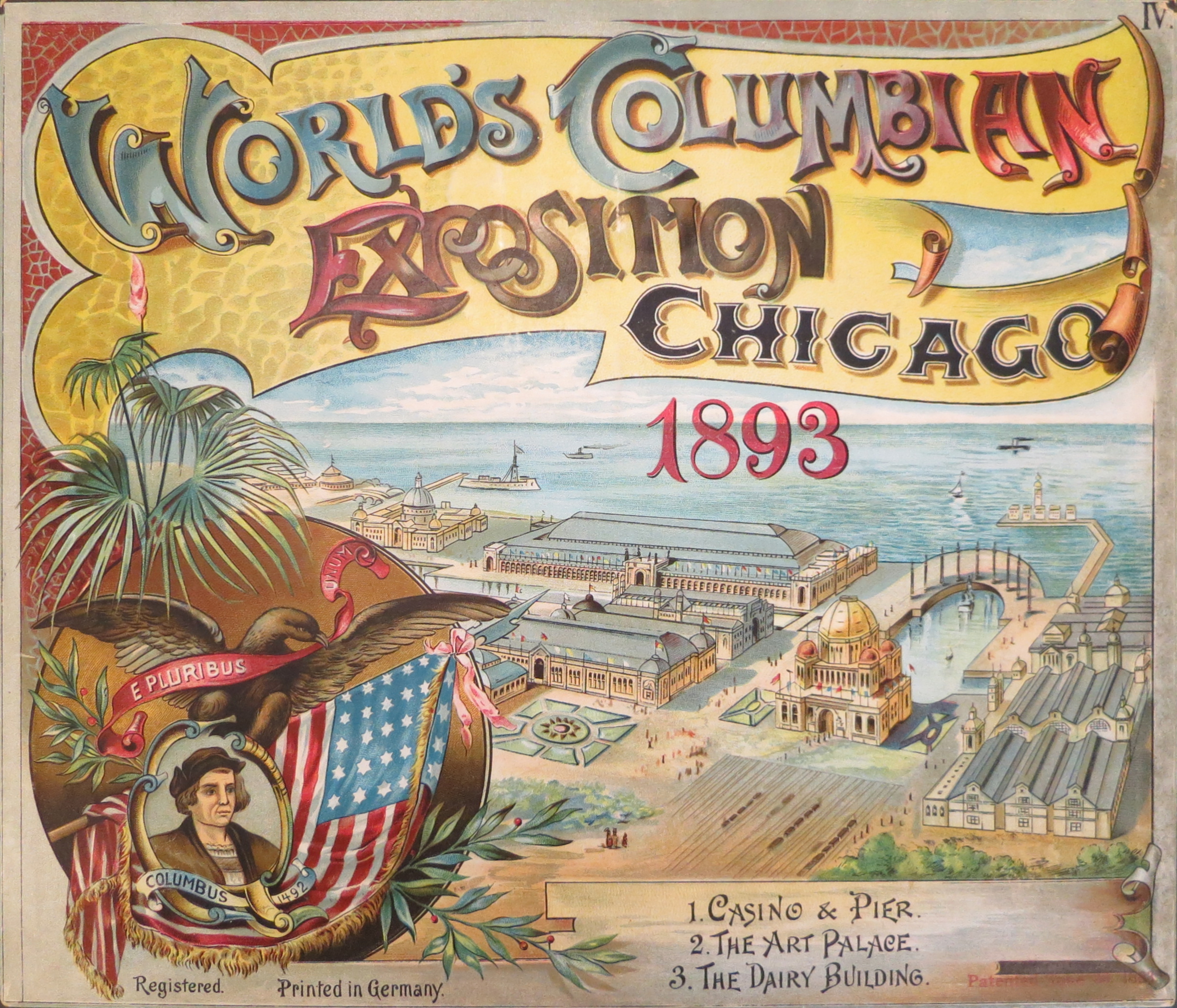 Advertisement piece of art for the World's Columbian Exposition (also known as the Chicago World's Fair), held in 1893